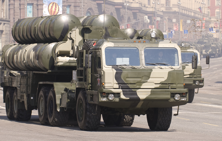 A Russian S-400 SAM during the Victory parade 2010.